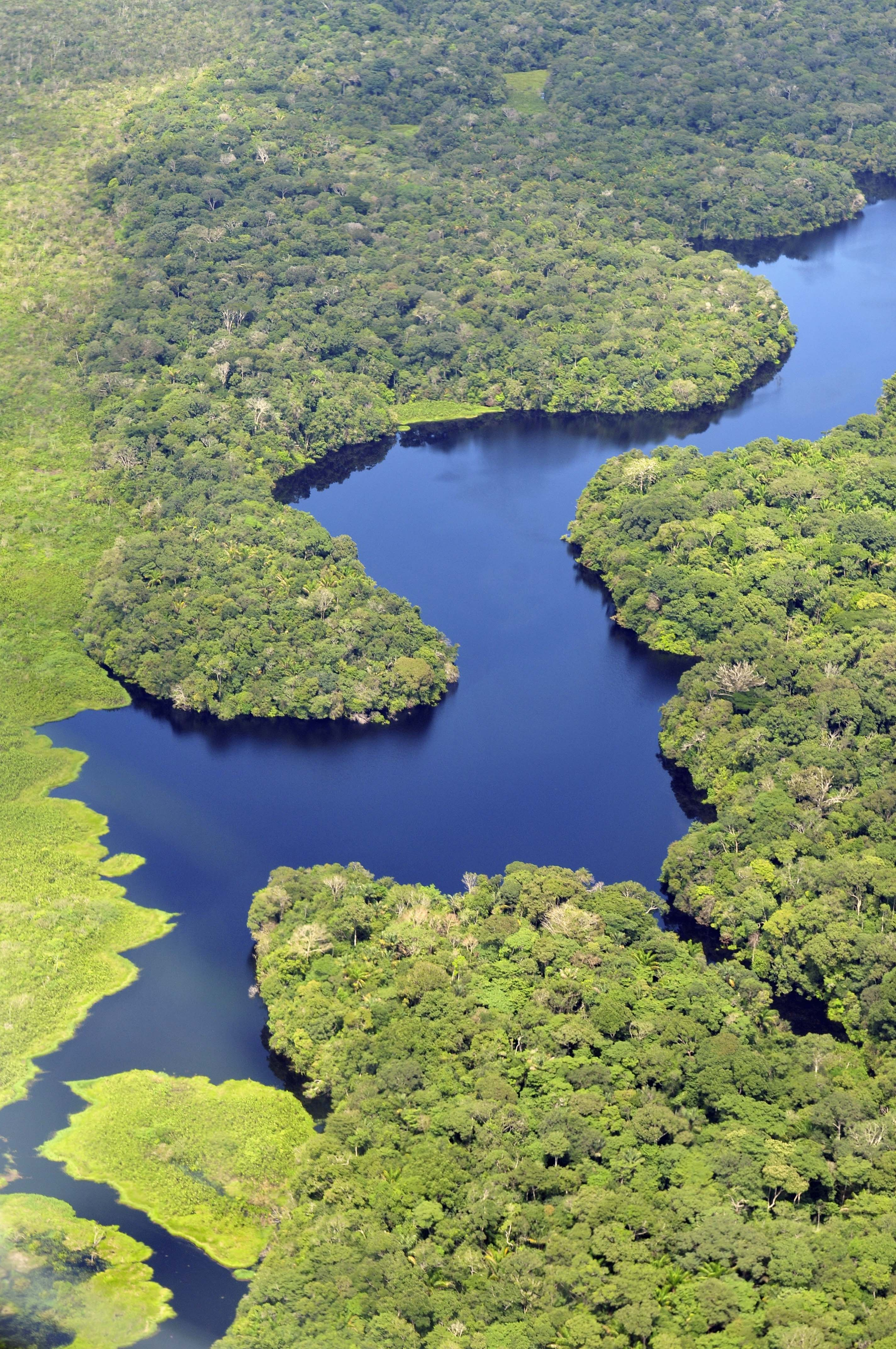 Pic by Neil Palmer (CIAT). Aerial view of the Amazon Rainforest, near Manaus, the capital of the Brazilian state of Amazonas. Please credit accordingly.